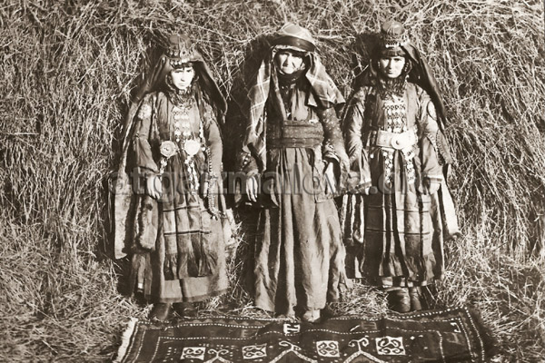 Azeri women from Borchali in handmade silk outfits.